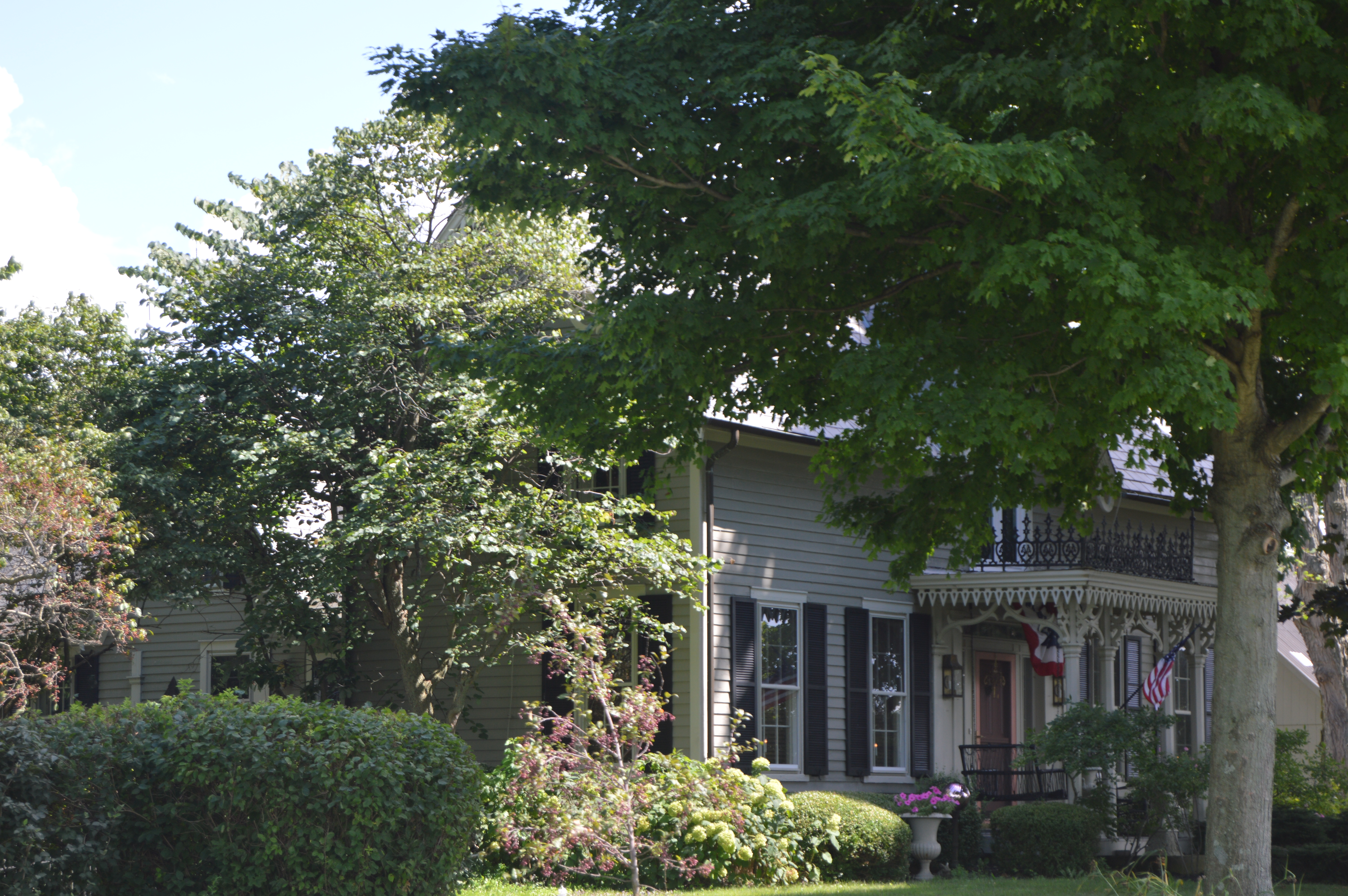 Front and northern side of the Lynnwood Farmhouse, located at 4986 Caswell Road south of Johnstown in Monroe Township, Licking County, Ohio, United States. Built in 1855, it is listed on the National Register of Historic Places along with the rest of the farmstead.